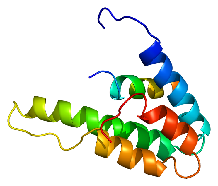 Structure of the SIN3A protein. Based on PyMOL rendering of PDB 1g1e.